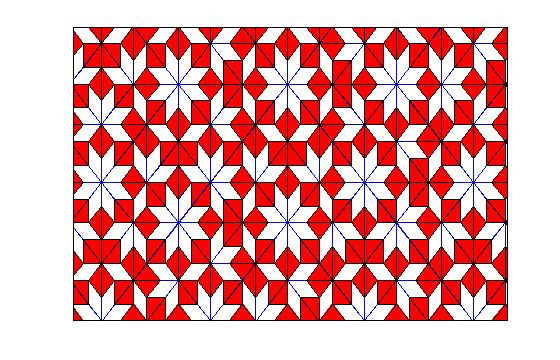 al 11:28, 22 November 2006 (UTC)